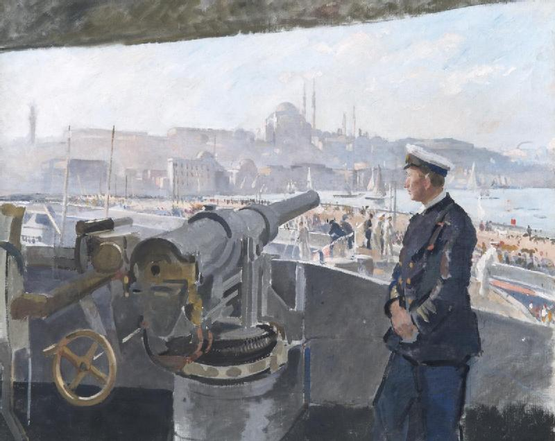 The Guns of HMS Caesar 1919 - Off Constantinople, looking towards the Golden Horn image: A view from the gun platform of a battleship overlooking a harbour in Constantinople. A Royal Navy officer stands in the right foreground next to the naval gun. Sailors are out on the deck of the ship and part of the cityscape is visible in the background, with sailing boats and small vessels in the water to the right.